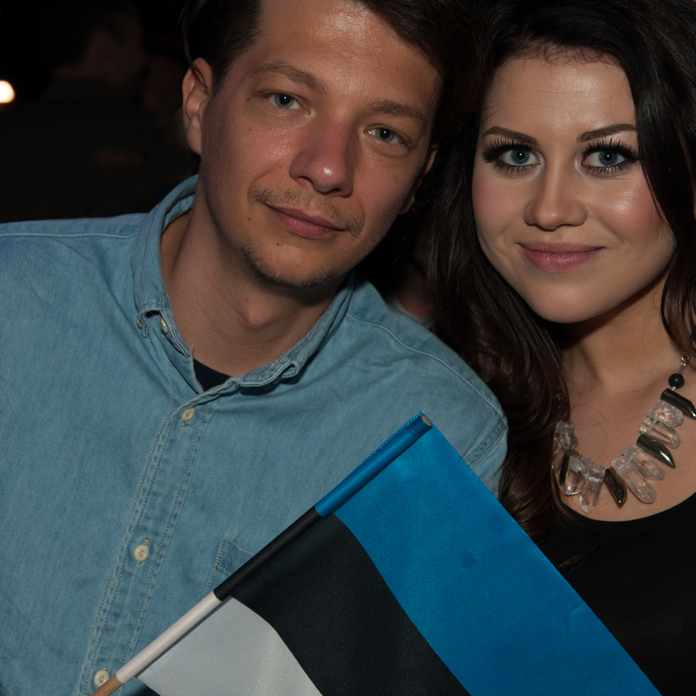 Eurovision Song Contest Vienna 2015: Elina Born & Stig Rästa